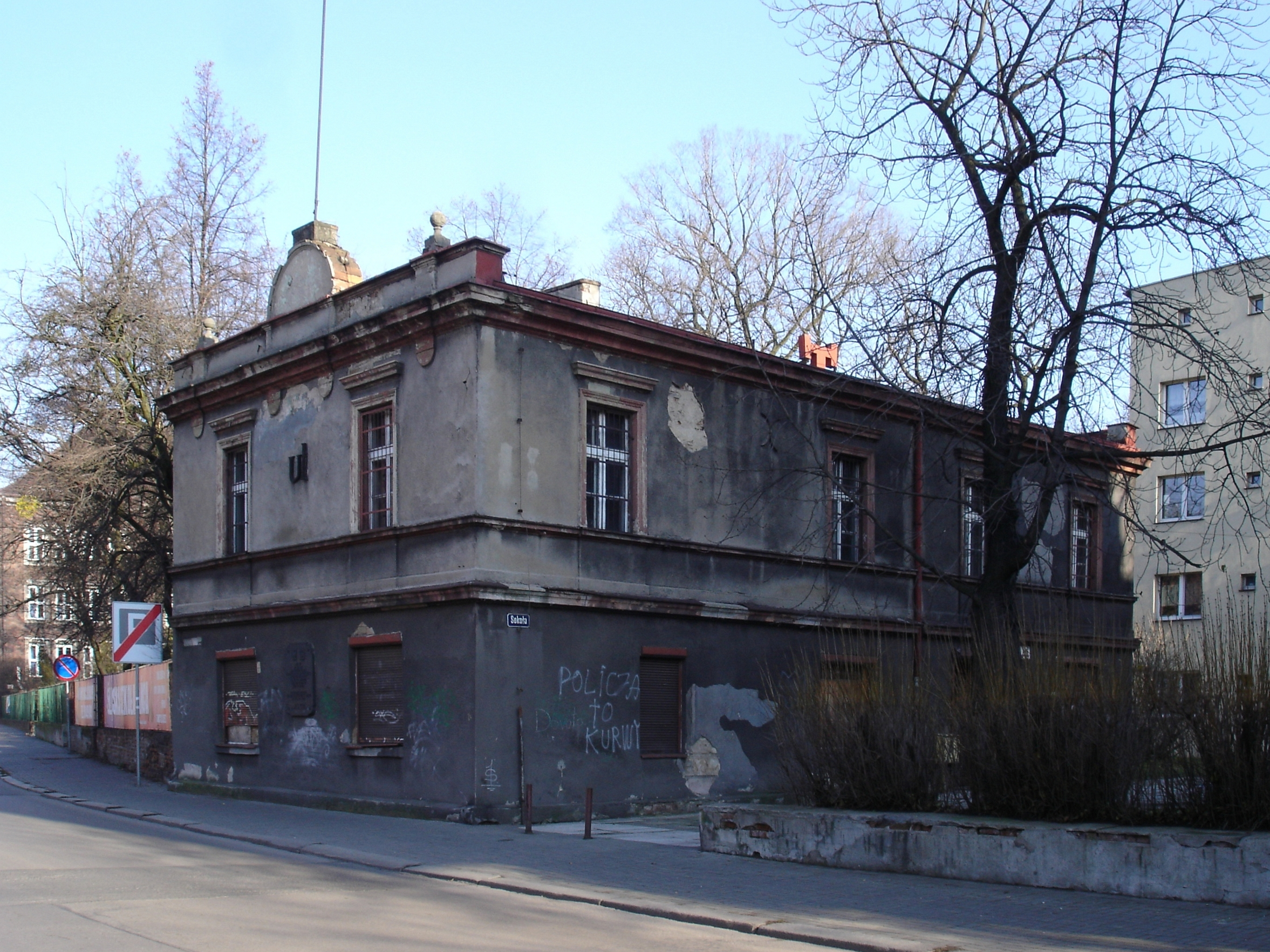 Dom Polski Ul in Bytom, Poland, a former restaurant, Korfantego 38, view from Korfantego street.